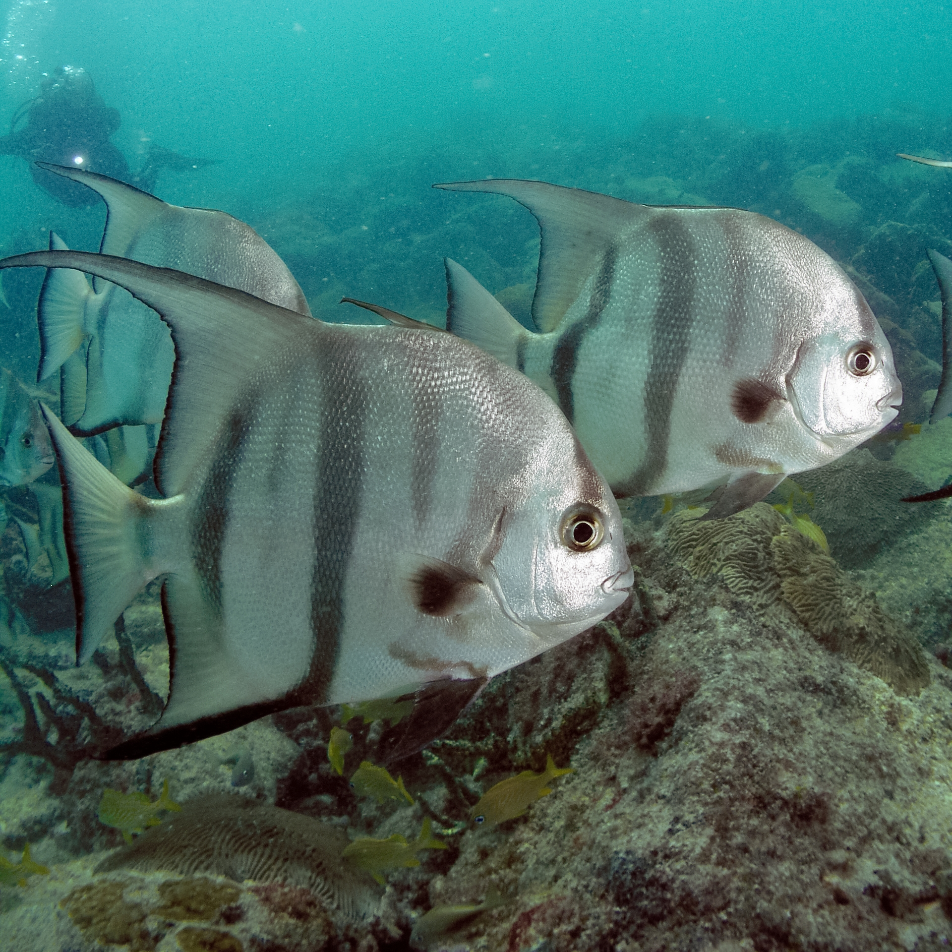 Atlantic spadefish. Photo taken with an Olympus C5050Z.